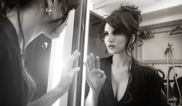 Sunny Leone on the sets of Jism 2.